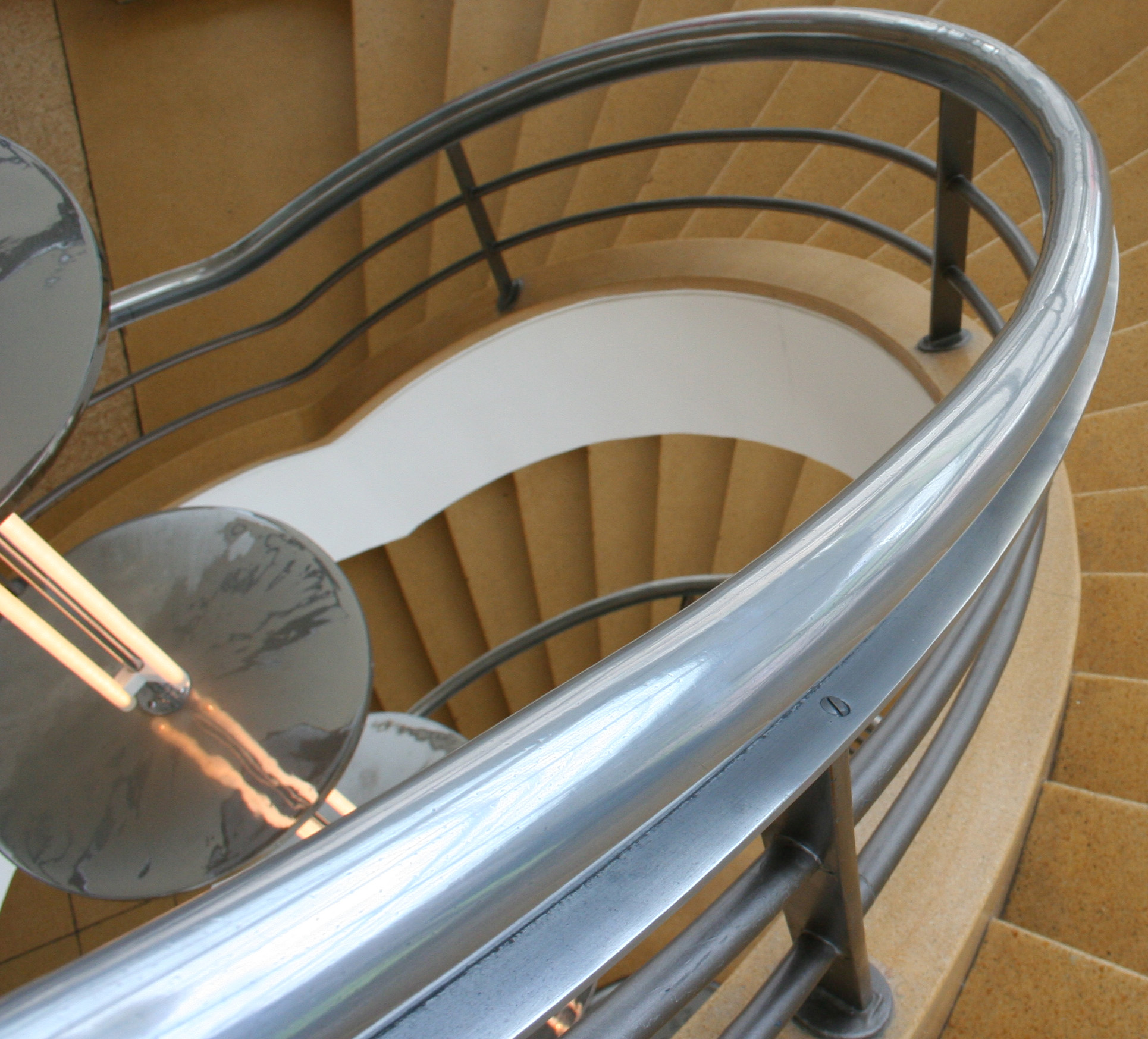 Spiral staircase of the De la Warr Pavilion, Bexhill, East Sussex